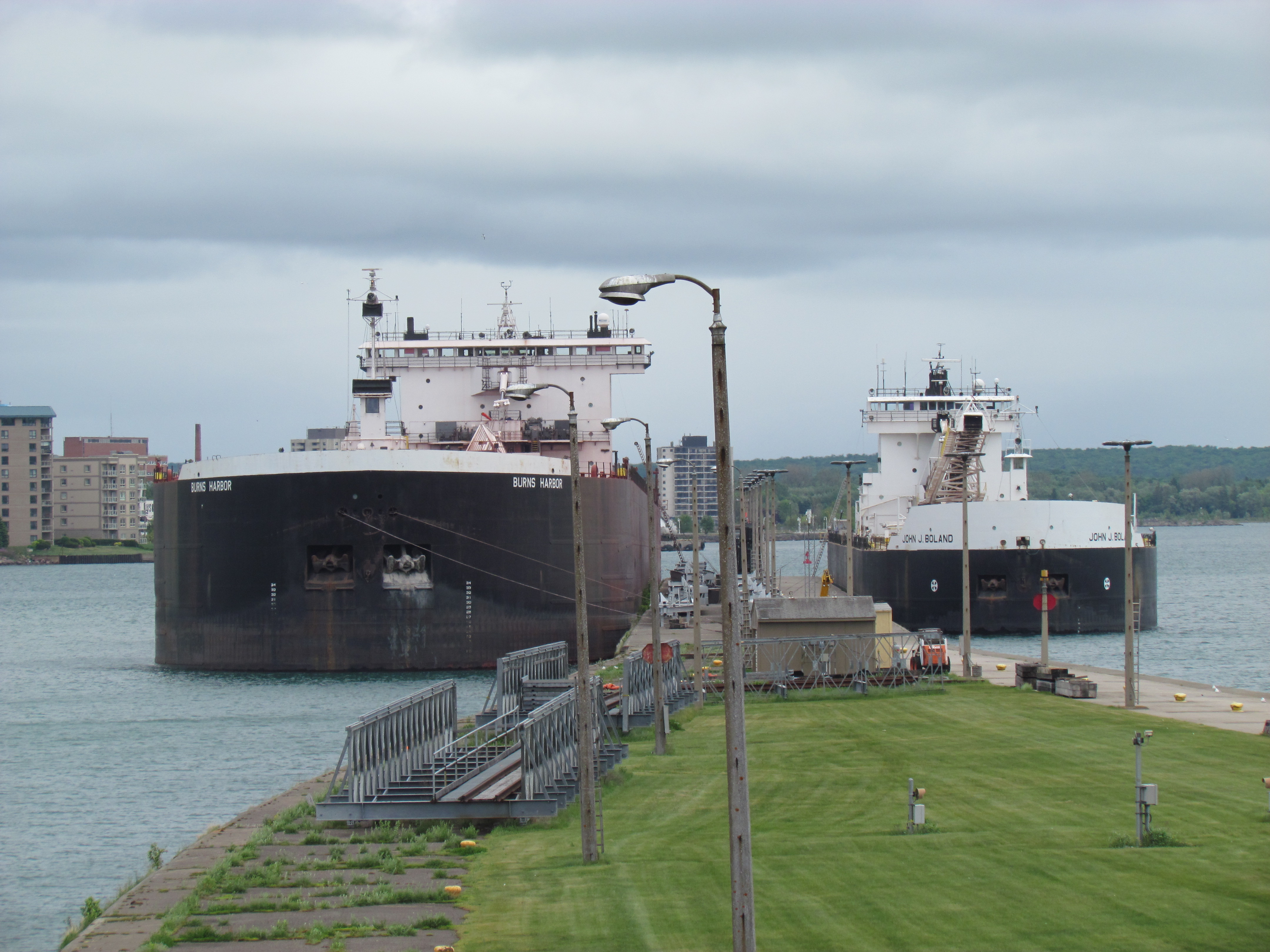 SAULT SAINTE MARIE, Mich. -- With the Poe Lock repairs complete, the 1000 foot-long Burns Harbor and 680 foot long John J. Boland wait at the East Center Pier for the down bound Stewart J. Cort to lock through. May 30, 2012. (U.S. Army Corps of Engineers photography by Michelle Hill)